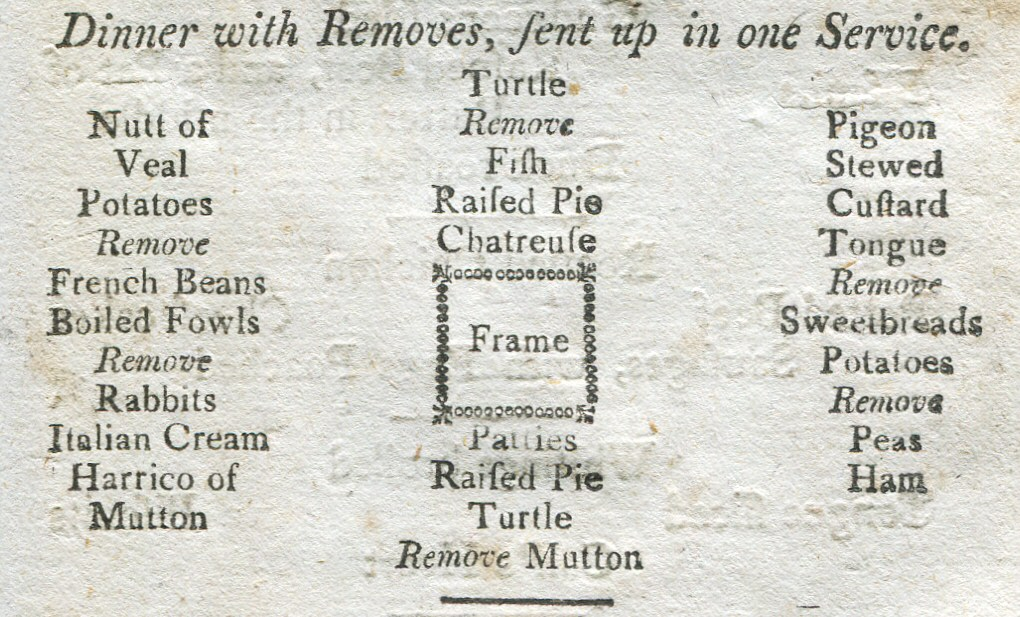 "Dinner with Removes" table layout recommended by William Augustus Henderson in his Housekeeper's Instructor, 1807. The dishes to be sampled first and then removed are indicated.